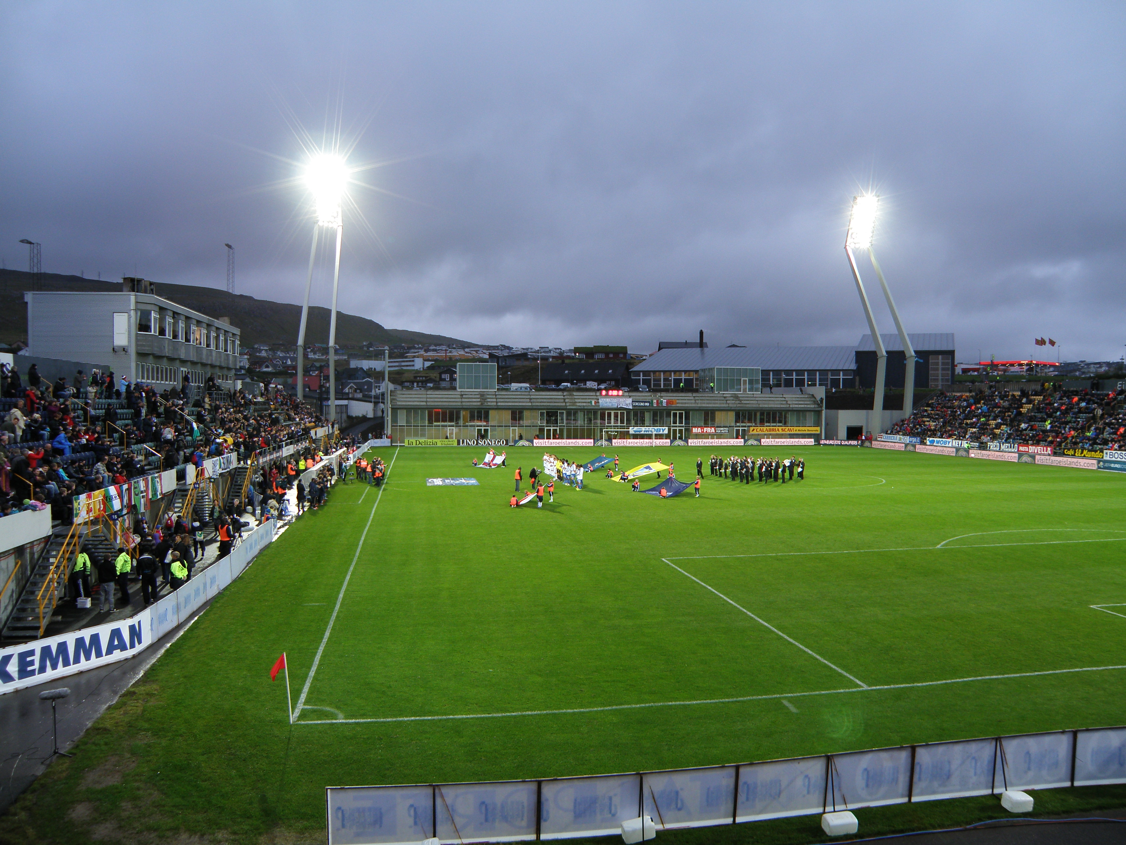 Tórsvøllur is one of two association football (soccer) venues of the national team of the Faroe Islands, located in Tórshavn, the capital. This photo was taken on 2 September 2011 just before the match between the Faroe Islands and Italy started. The result was 0-1. This was the first time that the new lights, which are placed in the four corners, were used at a football match. There is one other football venue which is also used for the matches of the national team, it is called Svangaskarð and is located in Toftir in Eysturoy. Føroyskt: Tórsvøllur er annar av tveimum altjóða góðkendum fótbóltsvøllum í Føroyum. Føroyska A-landsliðið spælir sínar dystir antin her ella á fótbóltsvøllinum á Svangaskarði á Toftum. Henda myndin varð tikin 2. september 2011, tá Føroyar spældi móti Italia. Italia vann dystin við einum málið 0-1. Súni Olsen og Christian Lamhauge Holst høvdu hvør sítt skot á stongina. Hetta kvøldið var fyrstu ferð at nýggju stóru ljósmastrarnar vóru tiknar í brúk til landsdyst.